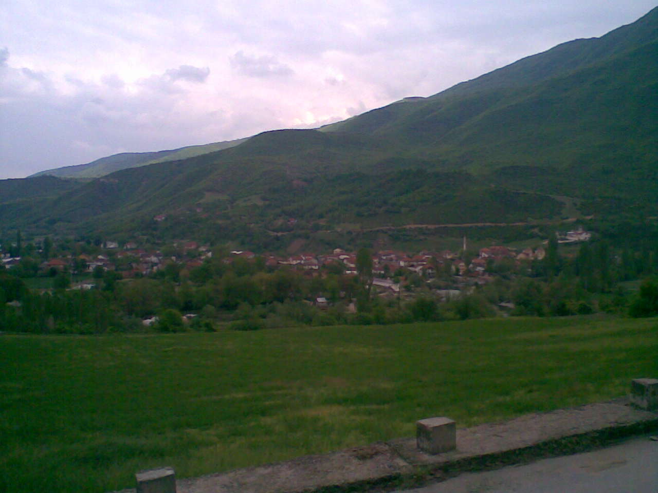 A view of Shishevo, a village in the Republic of Macedonia.